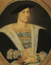 Portrait of William Cary, or Carey, d. 1528, husband of Mary Boleyn.